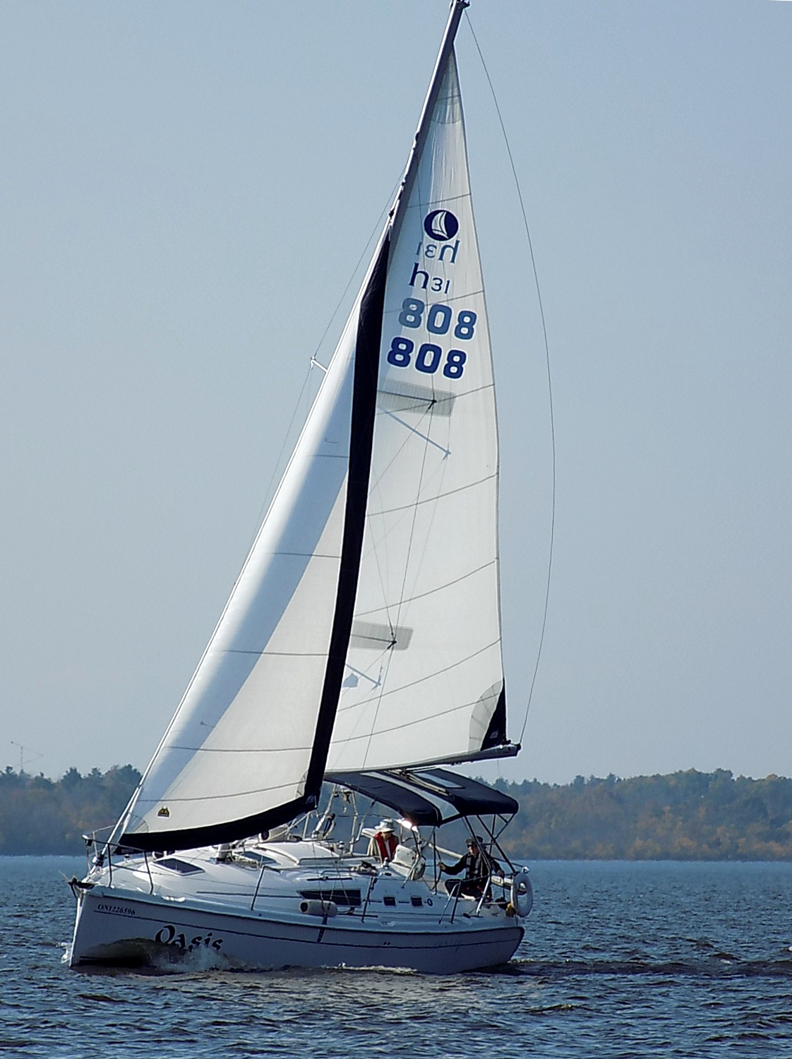 A Hunter 31 sailboat named Oasis.